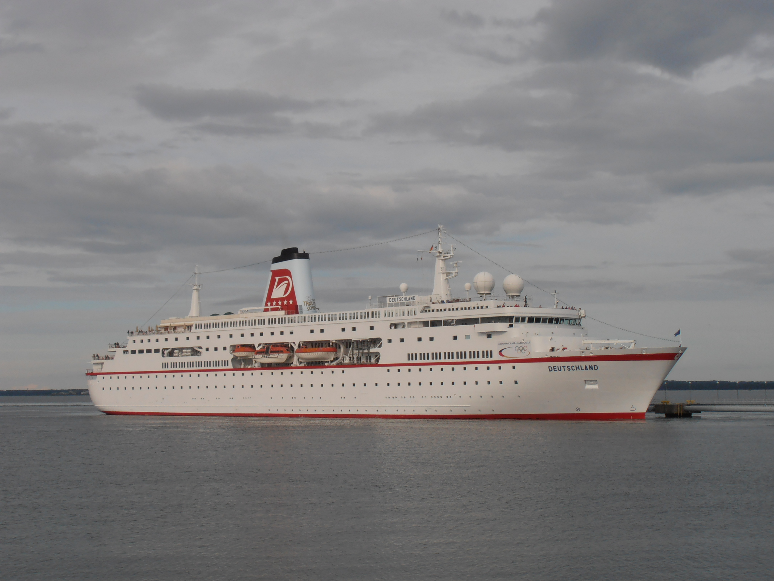 Deutschland at Pier 24 in Tallinn 26 August 2012